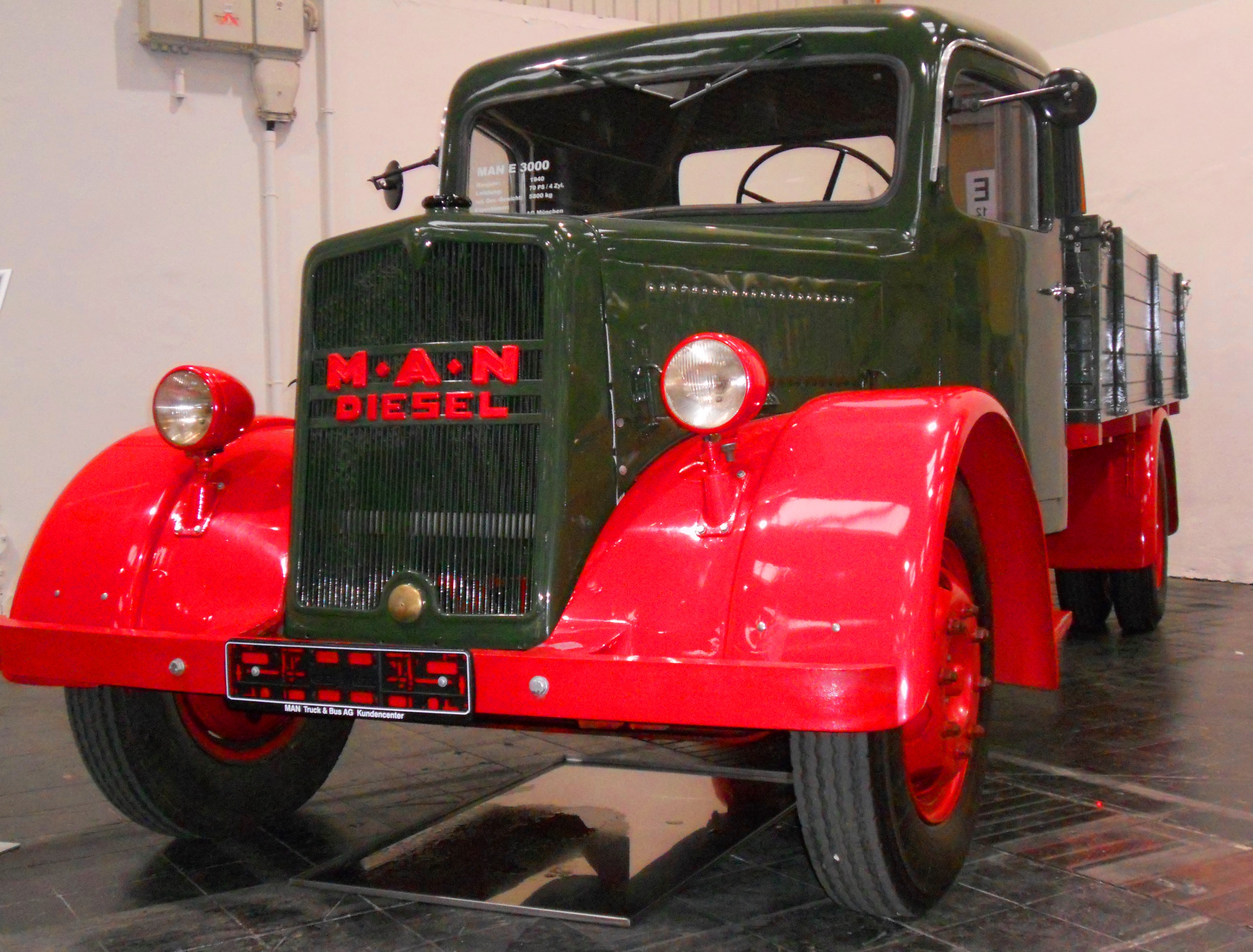 MAN E2 Truck. Built 1940. 4 cylinder, 70 HP. 5,8 to.